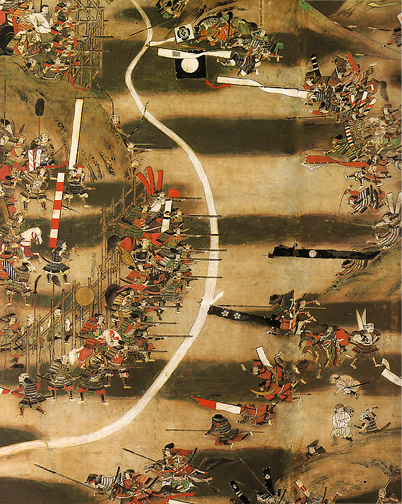 Battle of Nagashino 17-18th century painted screen.